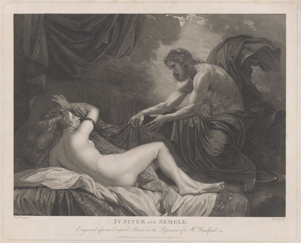 JUPITER and SEMELE